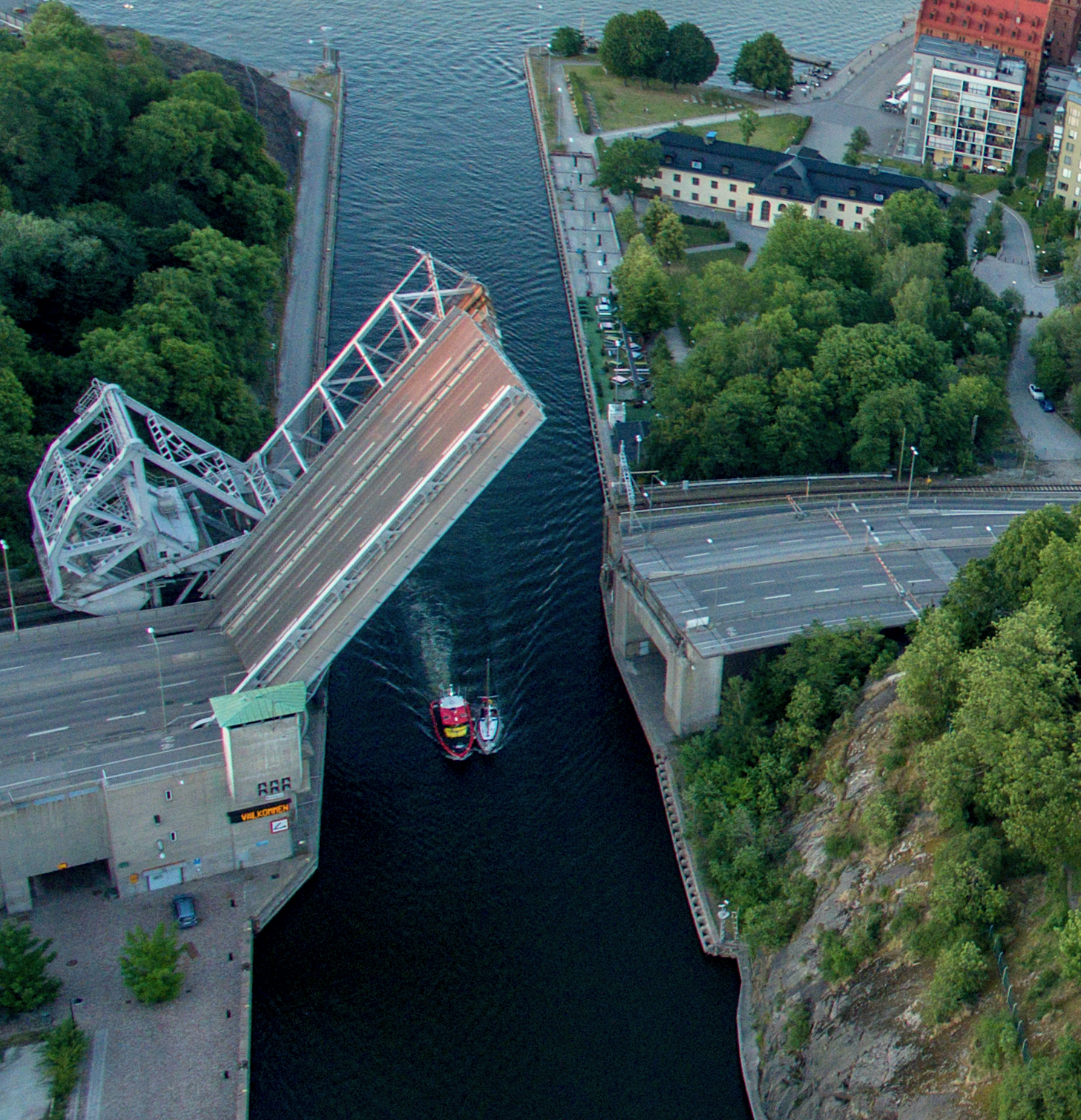 An aerial view of the Danviksbron (Danvik Bridge), a drawbridge in Södermalm, Stockholm, which has two side-by-side single-leaf bascule spans (the nearer one for road traffic only, the other shared by road and rail traffic), with its bascule spans opened for canal traffic. This photo was taken from a drone.